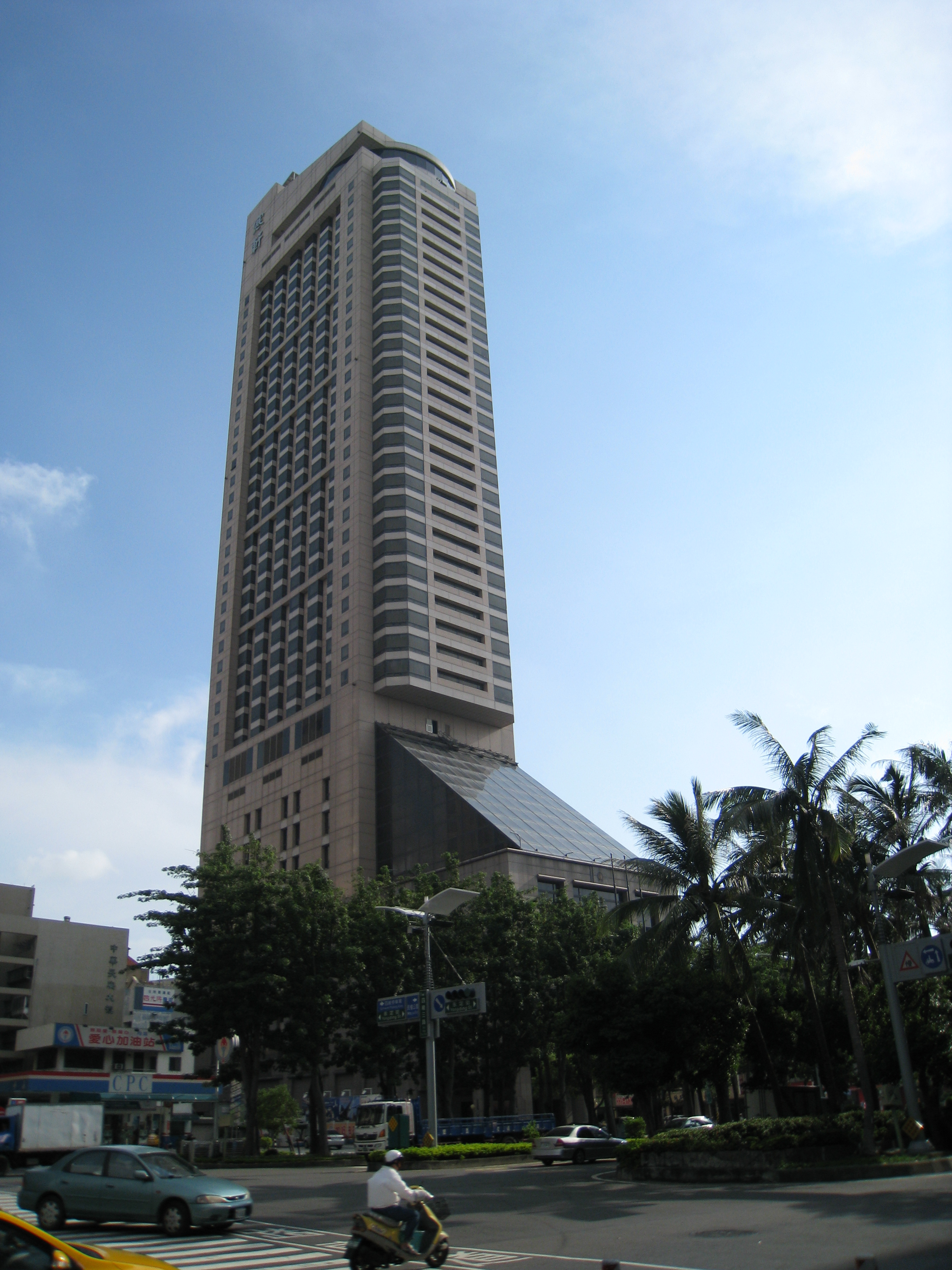 Han-Hsien International Hotel (former Lin Yuan Hotel)